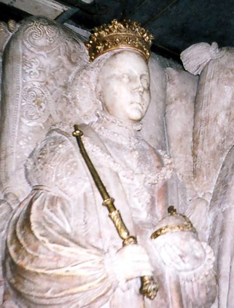 Queen Catherine of Sweden (née of Saxe-Lauenburg) as depicted on the sarcophagus of her grave sculpted by Willem Boy about 1570Place: Uppsala Domkyrka, Upsala, Sweden